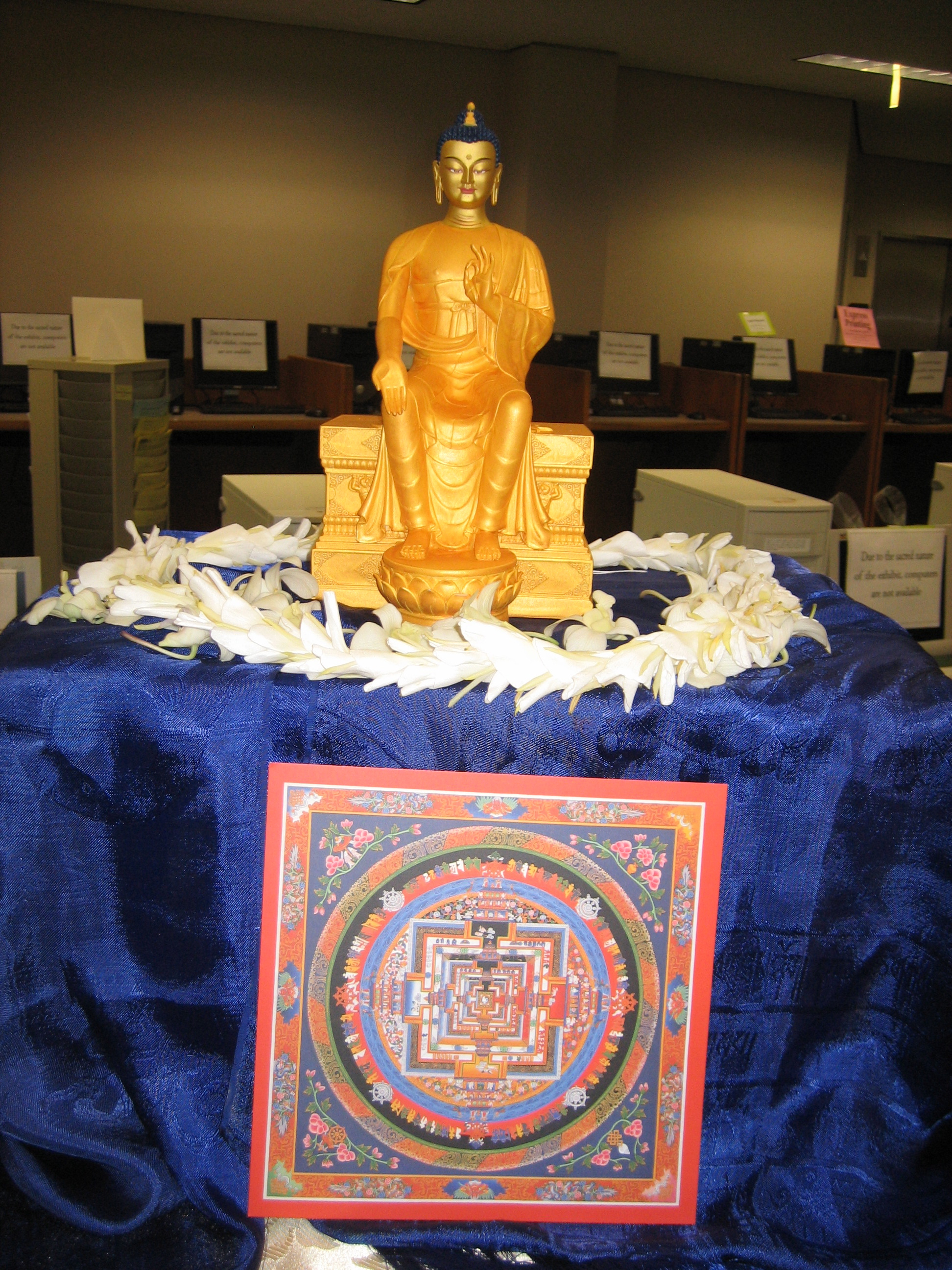 The Maitreya Project on tour at KCC.